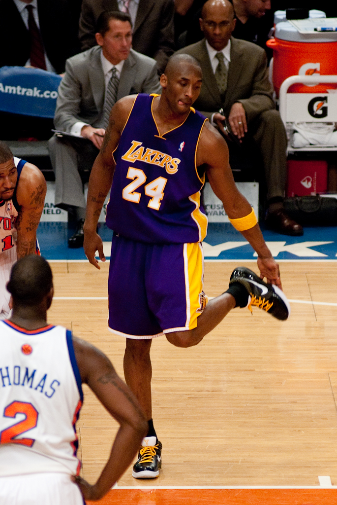 Kobe Bryant 61 point game against the New York Knicks